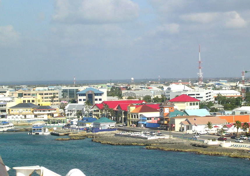 Business buildings near the center of George Town, seen from the ship. North Sound is in the distance.